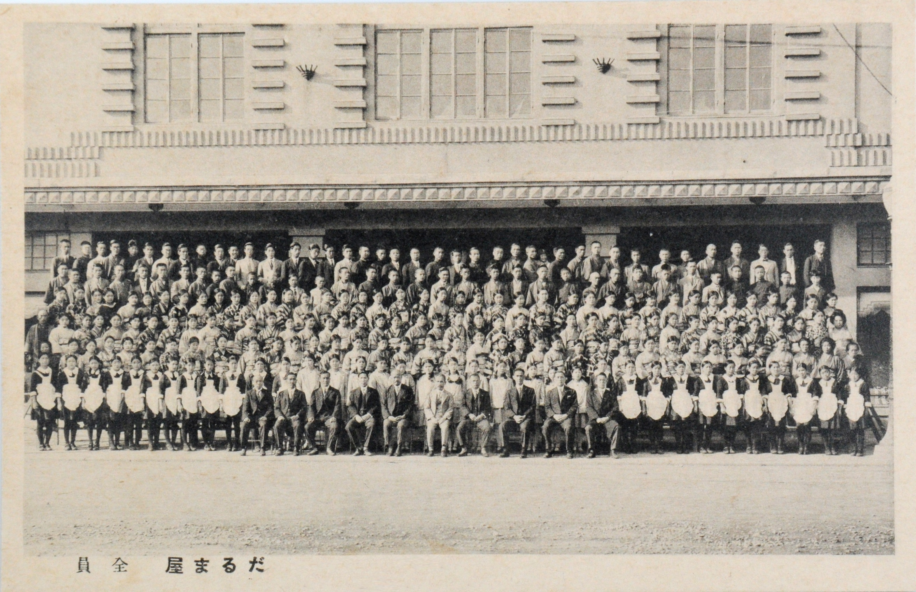 All staff of Darumaya Department Store. Fukui, Japan..